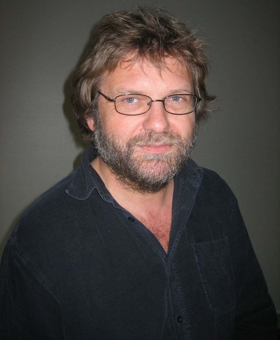 edited with the GIMP, cropped at the top, scaled to 50%, saved at 85% quality